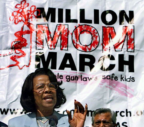 Betty Holzendorf during a Million Mom March protest on 28 March 2001